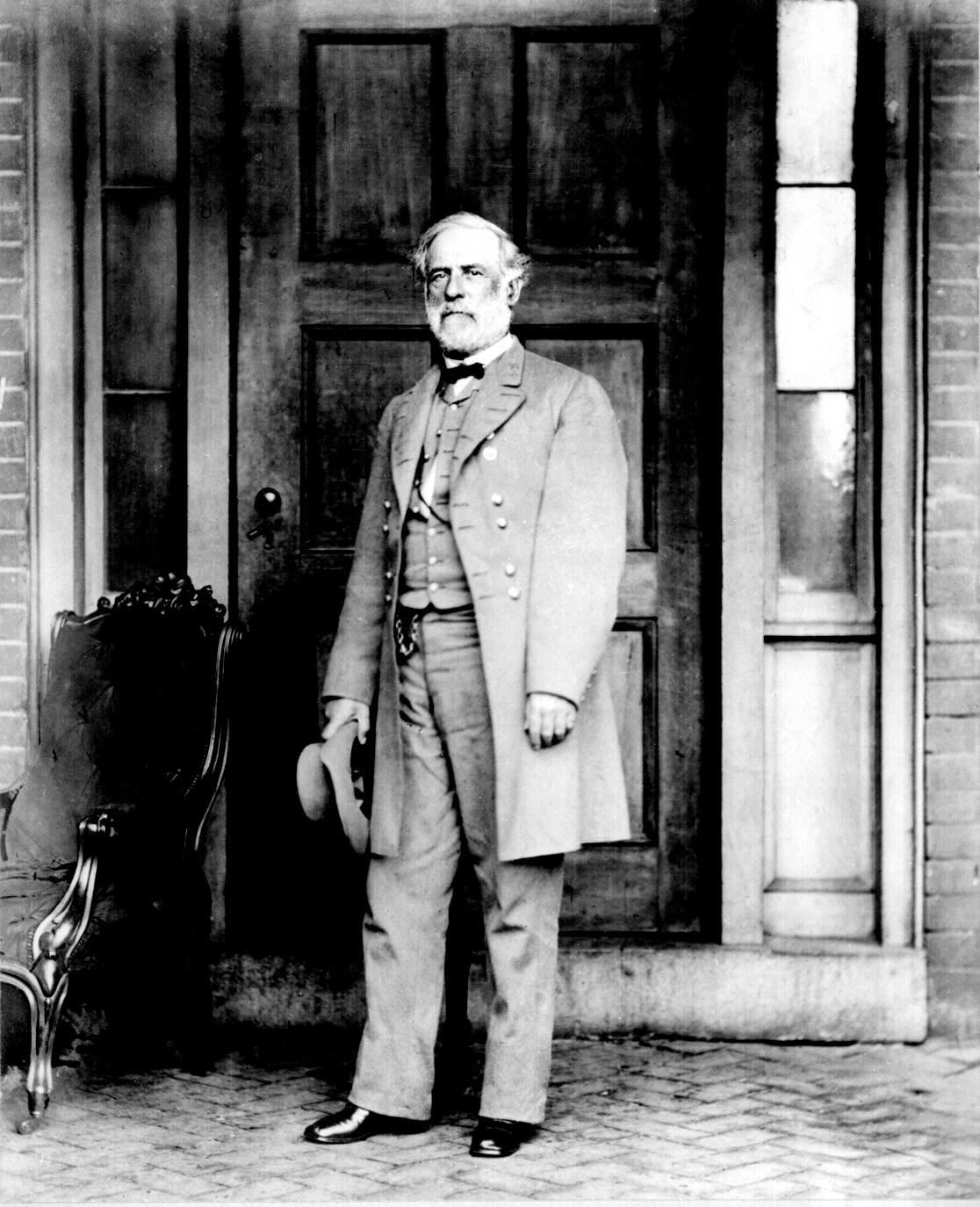 Confederate General Robert E. Lee poses in a late April 1865([1]) portrait taken by Mathew Brady in Richmond, Virginia. Lee's surrender to Union General Ulysses S. Grant at Appomattox Court House on 9 April 1865, soon before this portrait was taken, marked the end of the American Civil War. Dust and scratches removed by Thegreenj